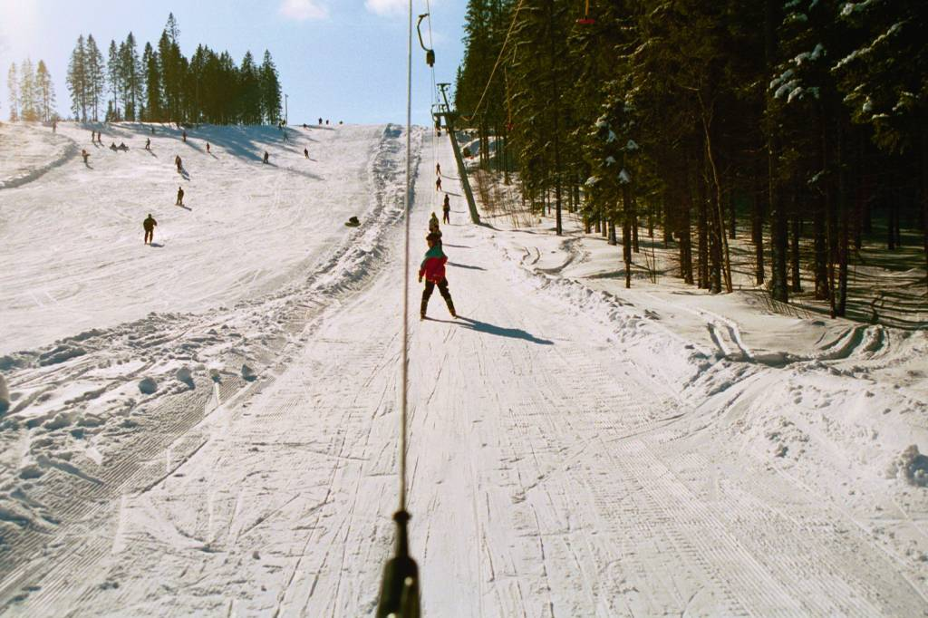 CORES day, Sappee, Finland 2000.